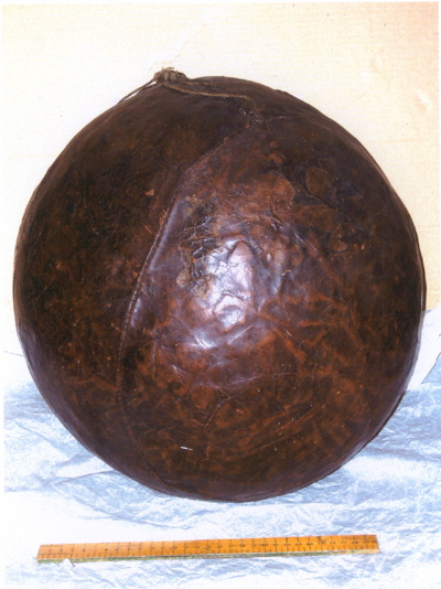 Shrovetide Football from Ashbourne in Derbyshire